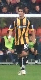 Jon Challinor playing for Cambridge United against York City at Bootham Crescent, York on 4 October 2008